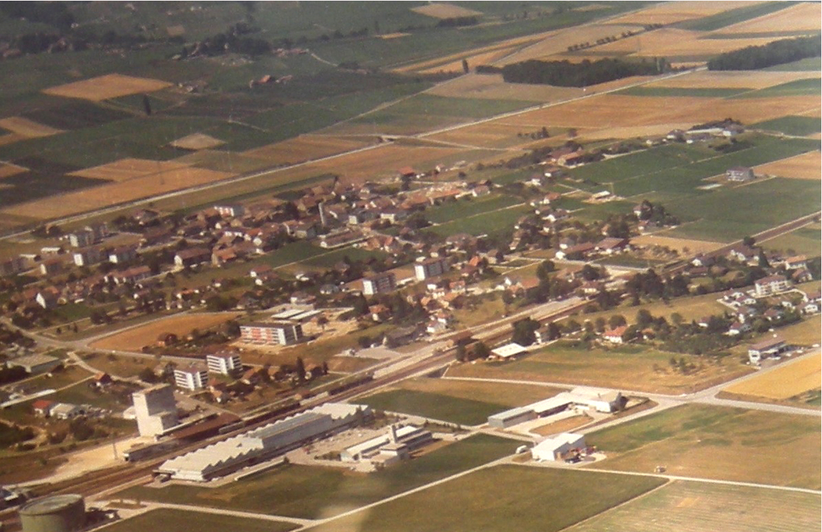 1196-Gland 1972